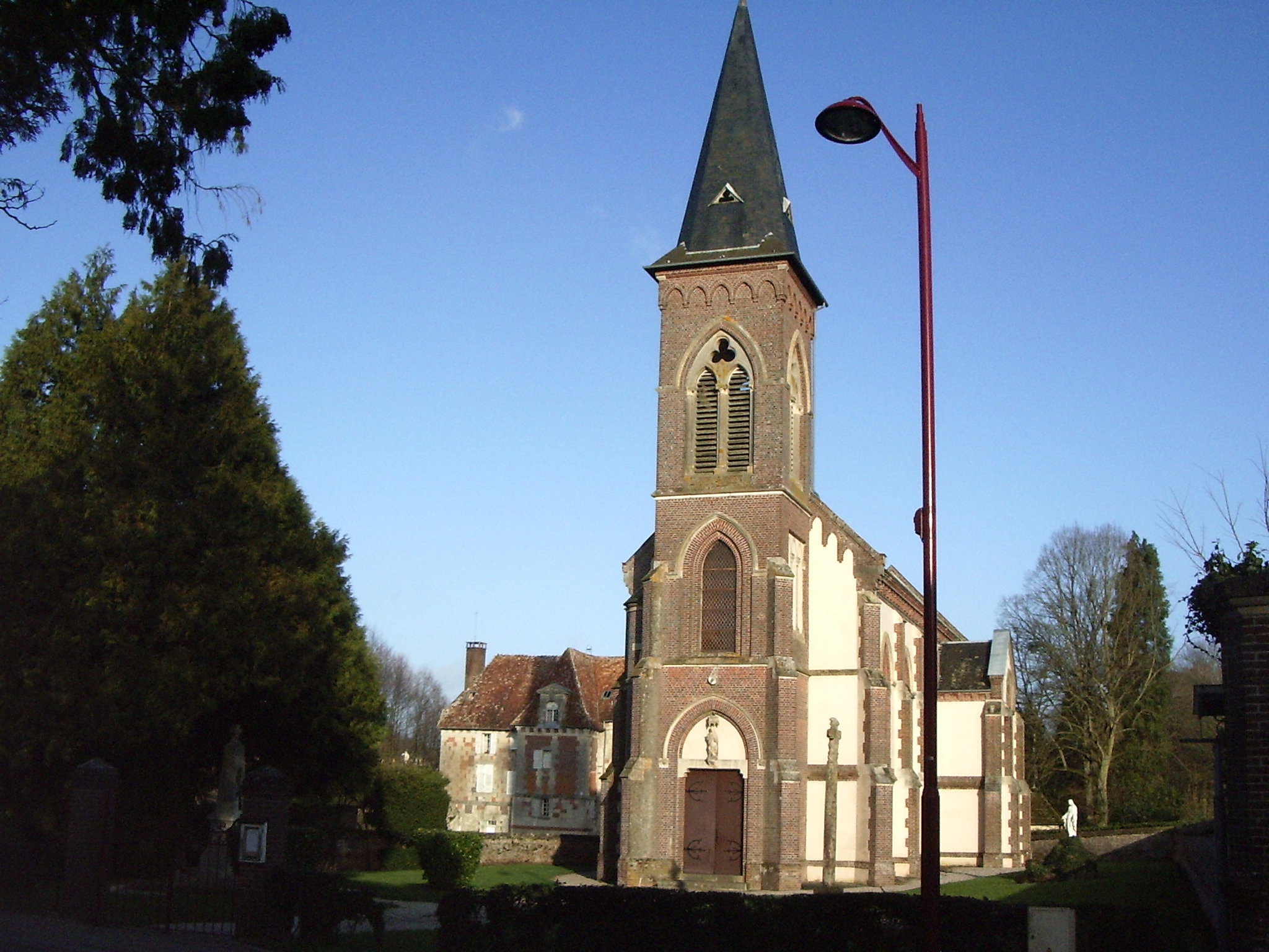 Church and castle of Hermival-les-Vaux (Calvados, France).